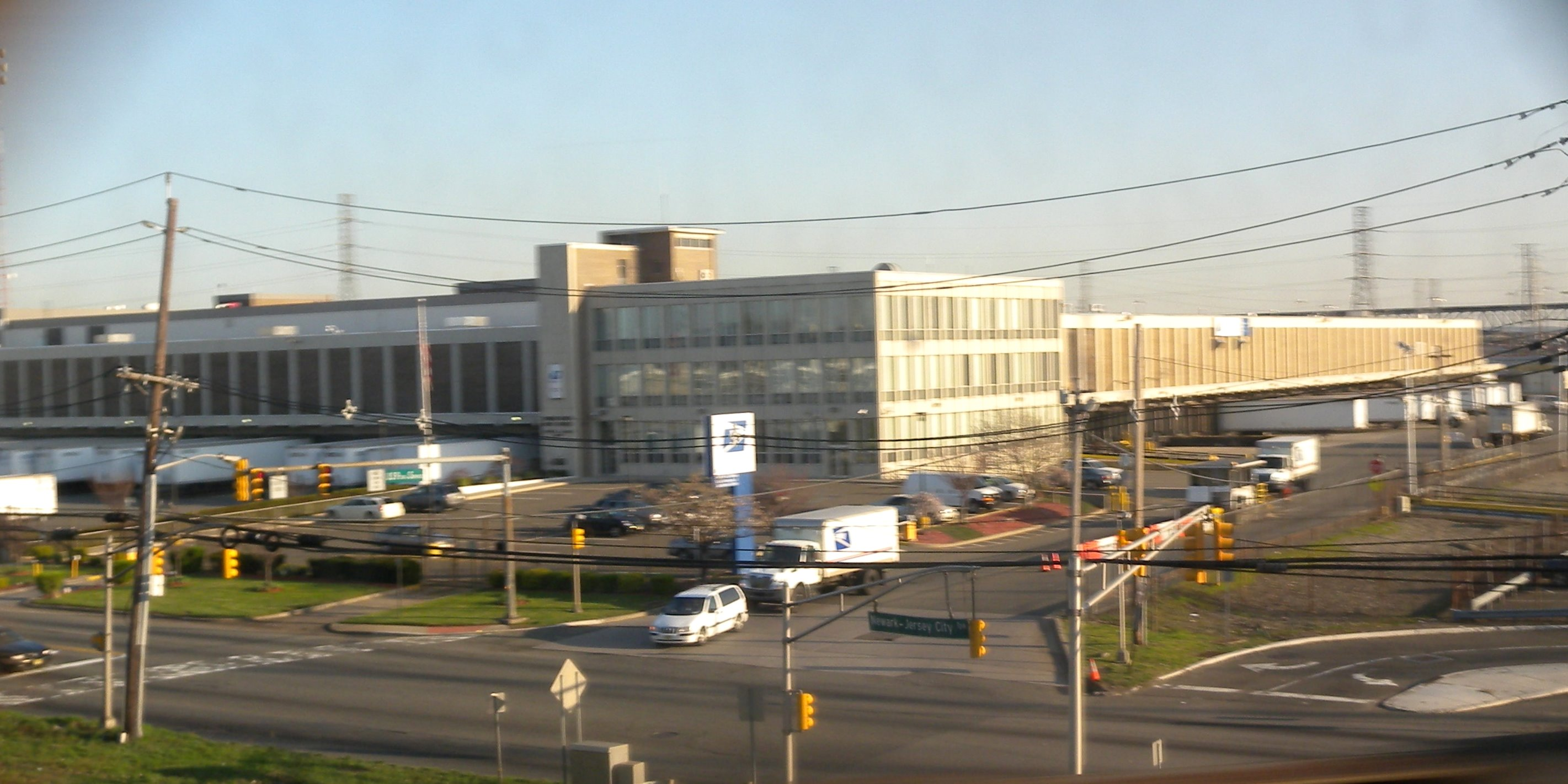 Looking south from a passing train at section center on a sunny late afternoon.